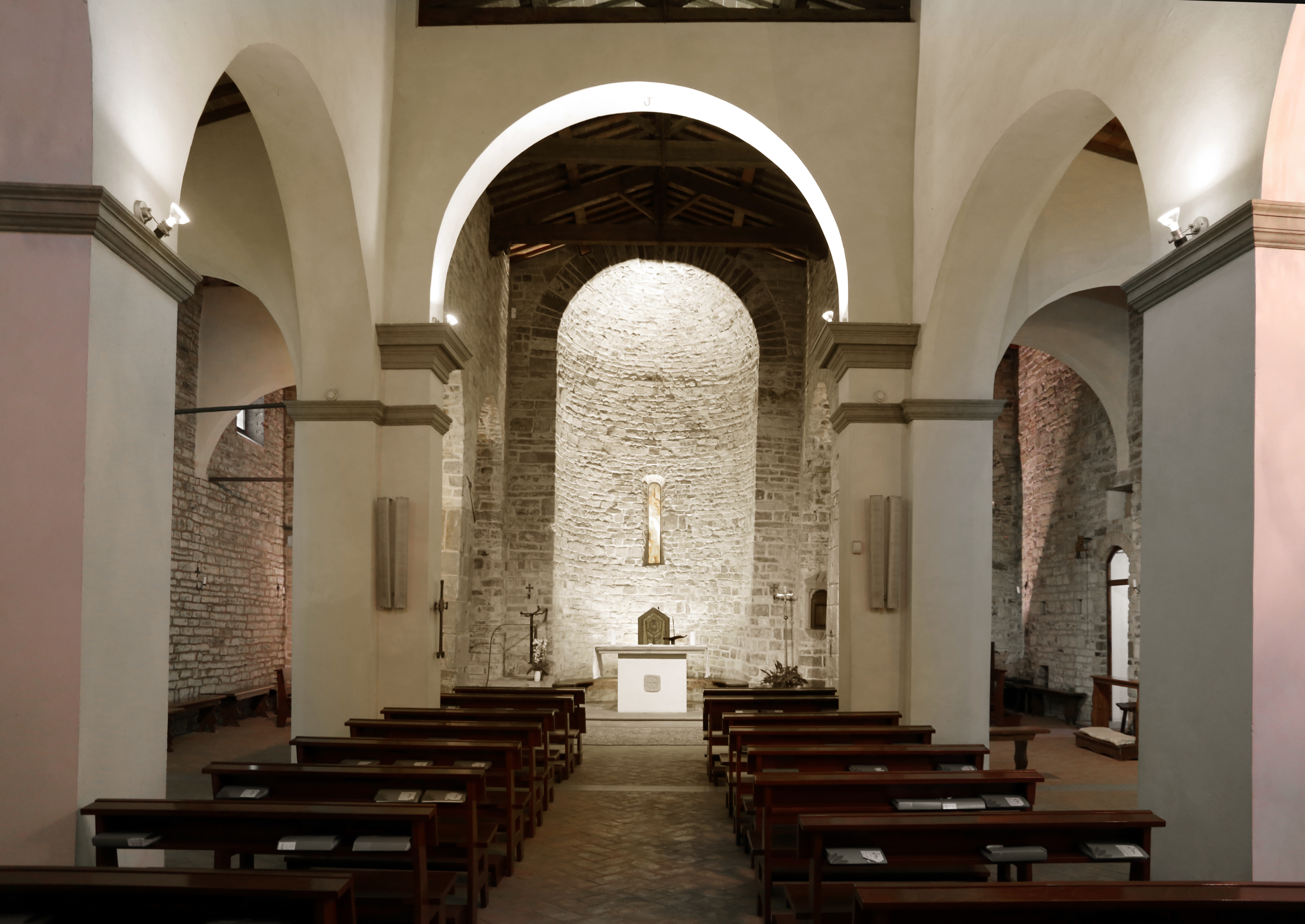 San Leolino (Rignano sull'Arno)